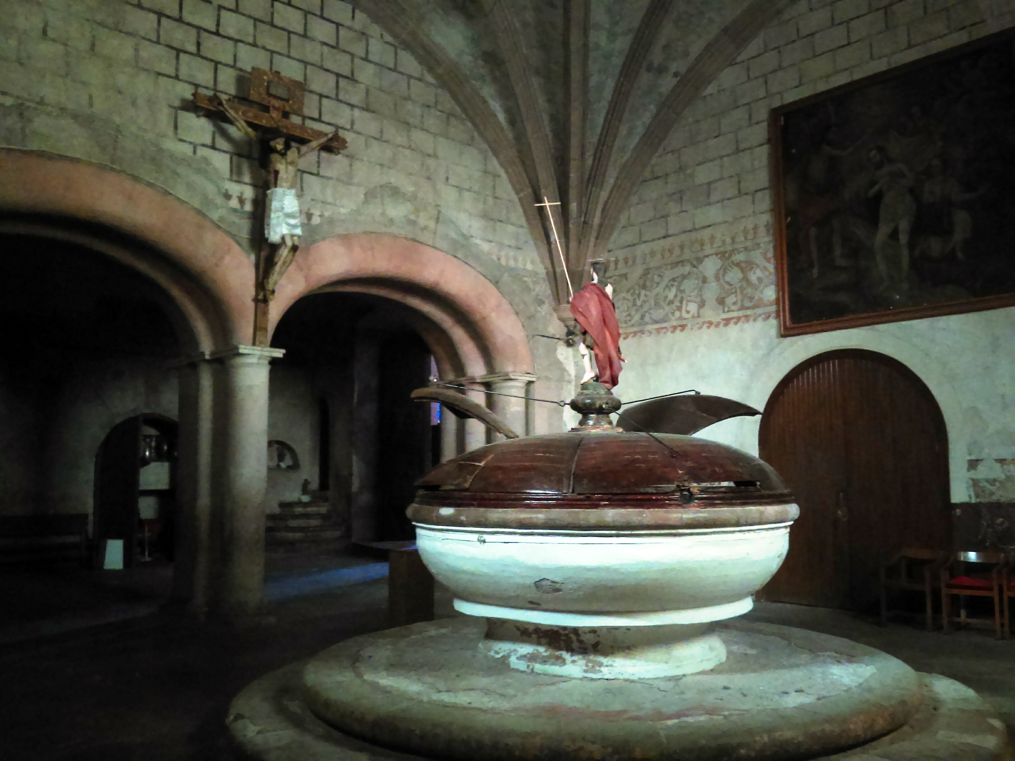 Interior of the Saint Nicholas of Tolentino Temple of Actopan